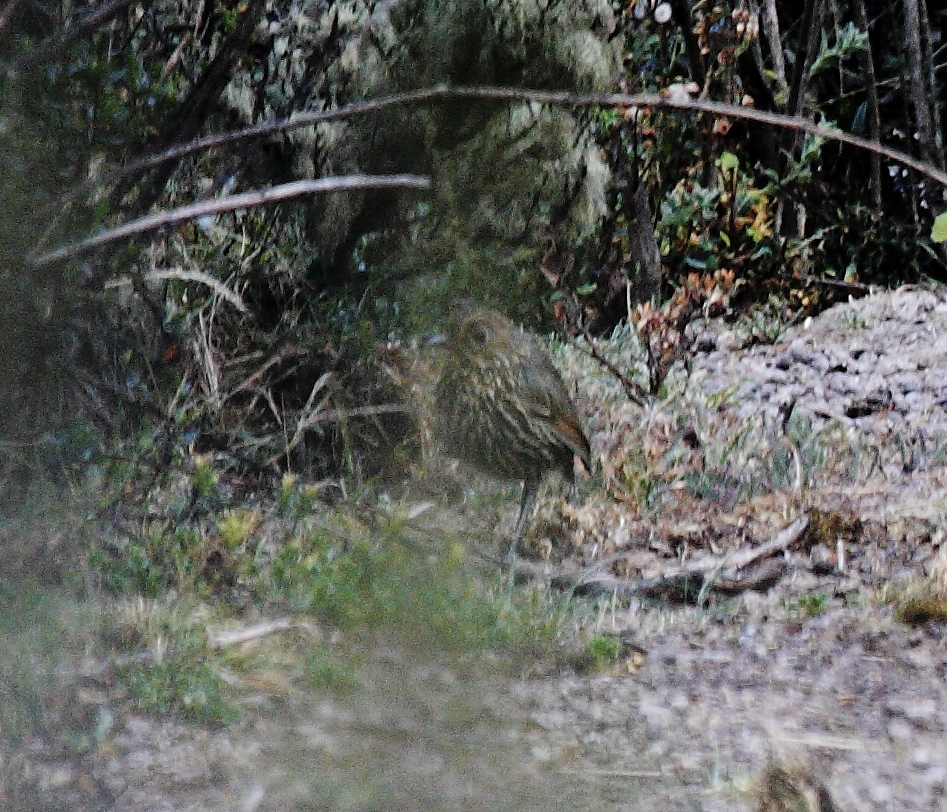 Stripe-headed antpitta